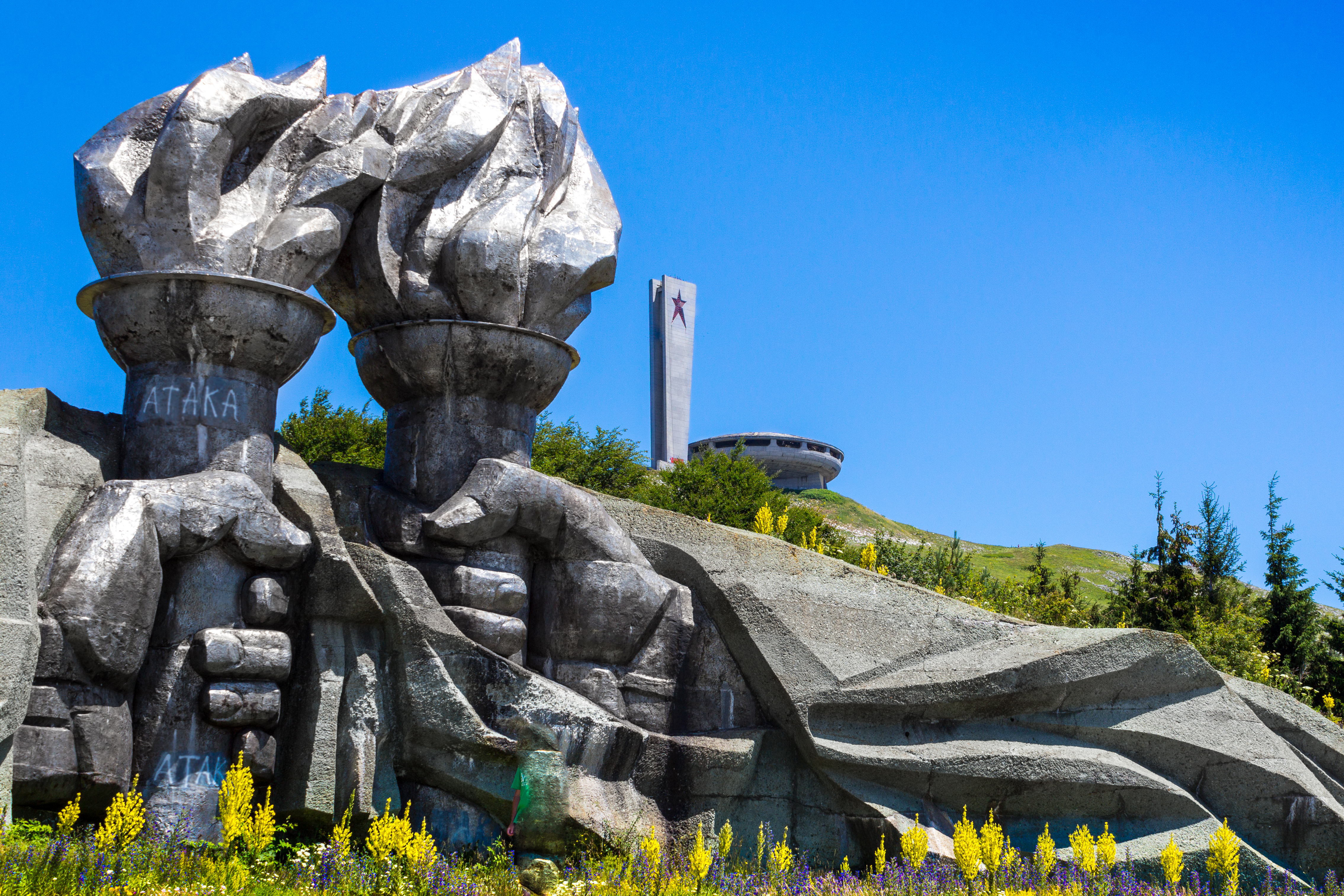 Monument of Buzludzha, Bulgaria